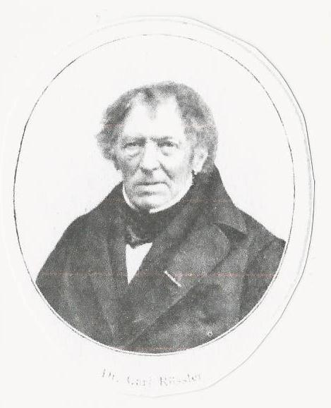 Karl Rößler, Mineraloge